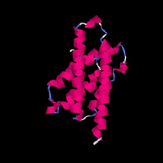 A possible structure of TMEM254